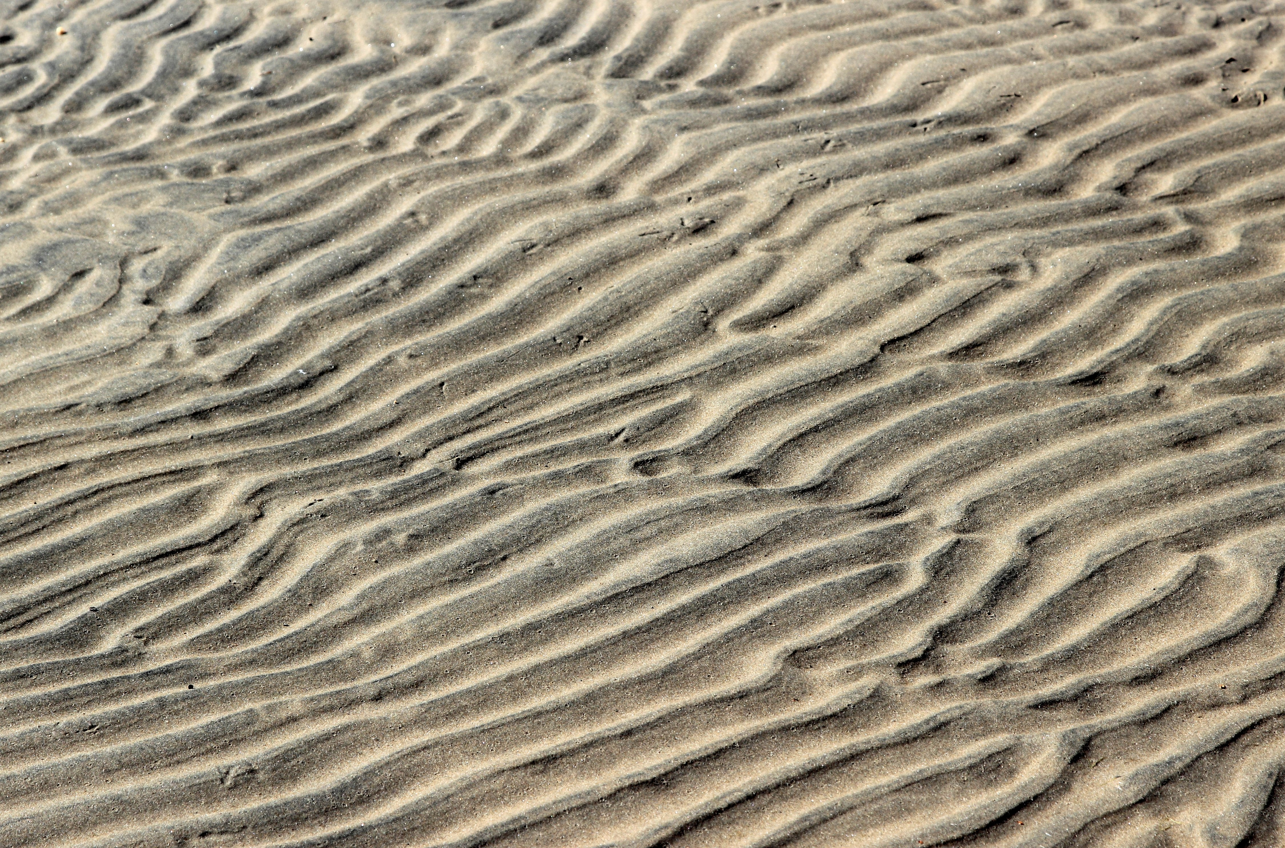 The Isoniemi beach in Kello, Oulu.